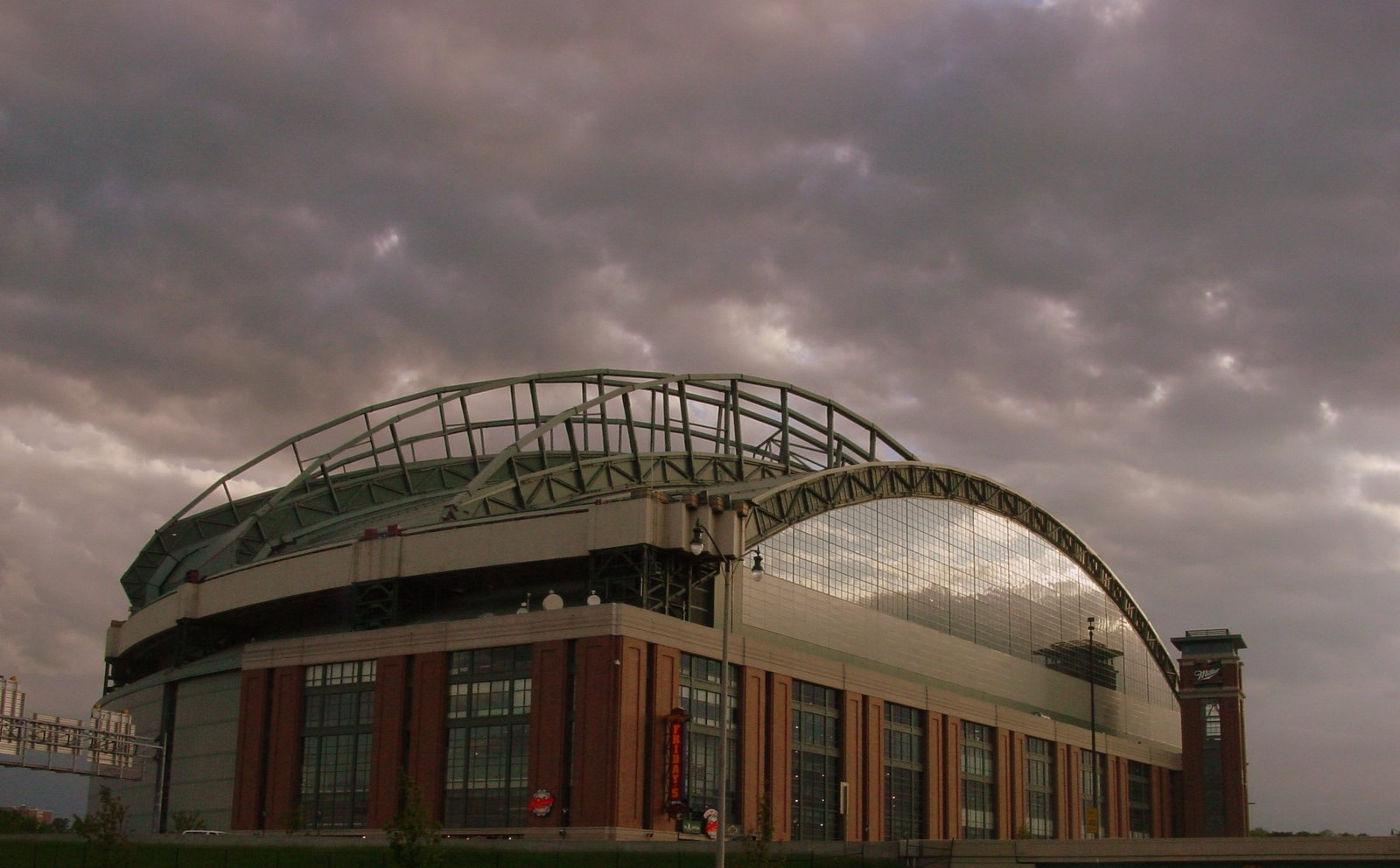 Home of the Milwaukee Brewers, it's Miller Park located off of I-94 in Milwaukee, Wisconsin.